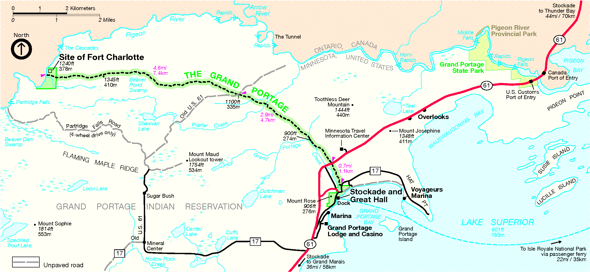 Map of Grand Portal National Monument, Minnesotam, USA